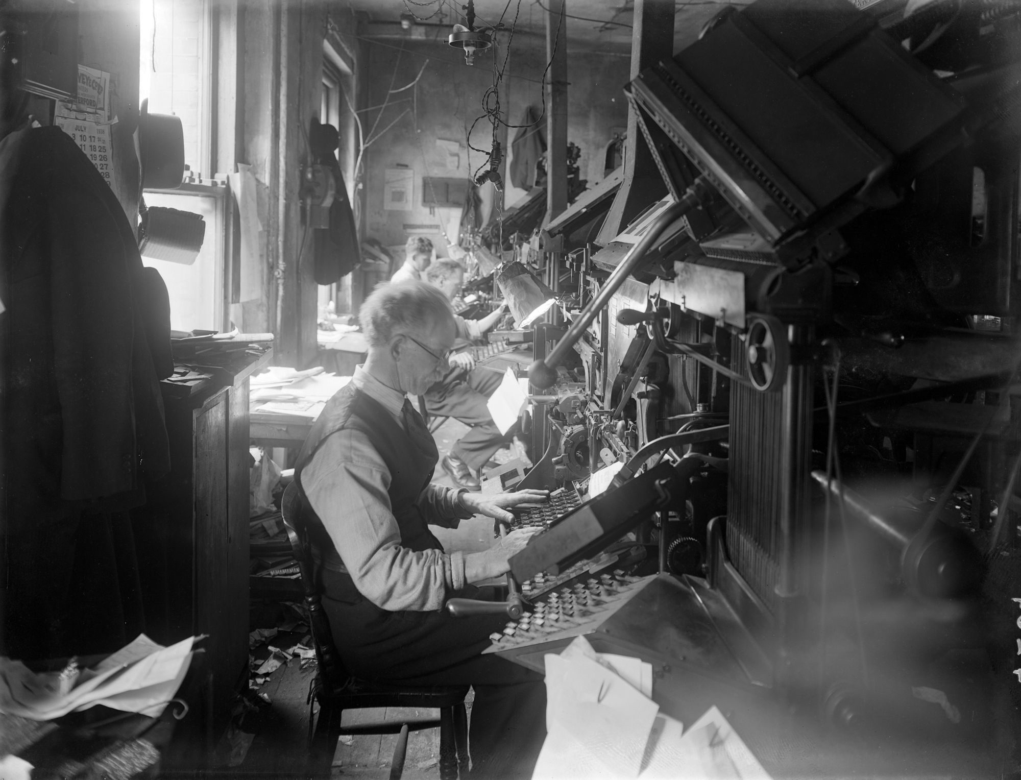 Typesetters working on linotype machines at the Waterford News in what looks like organised chaos. This newspaper was set up in 1848, and is still going strong as the Waterford News and Star in print and online . Date: Friday, 29 July 1938 NLI Ref.: P_WP_4269